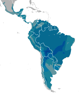 A map of the range of the genus Leopardus. Derived from the species maps. The layers containing the individual ranges of the species were set to 'overlay' producing darker hues in areas of greater diversity.